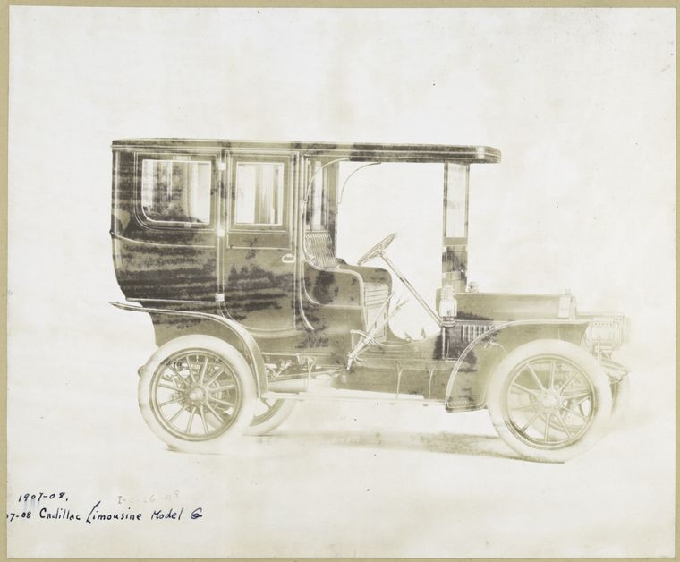 Cadillac 1908 Model G Limousine Digital ID: 481998 Source: Photographs of General Motors and Chrysler car and truck models, 1902 - 1938. / 1902-1938. Cadillac - Chrysler - De Soto - Dodge - LaSalle - Plymouth. Photographs - Specifications. ( more info ) Repository: The New York Public Library. Science, Industry and Business Library. General Collection Division. See more information about this image and others at NYPL Digital Gallery . Persistent URL: Rights Info: No known copyright restrictions; may be subject to third party rights (for more information, click here )